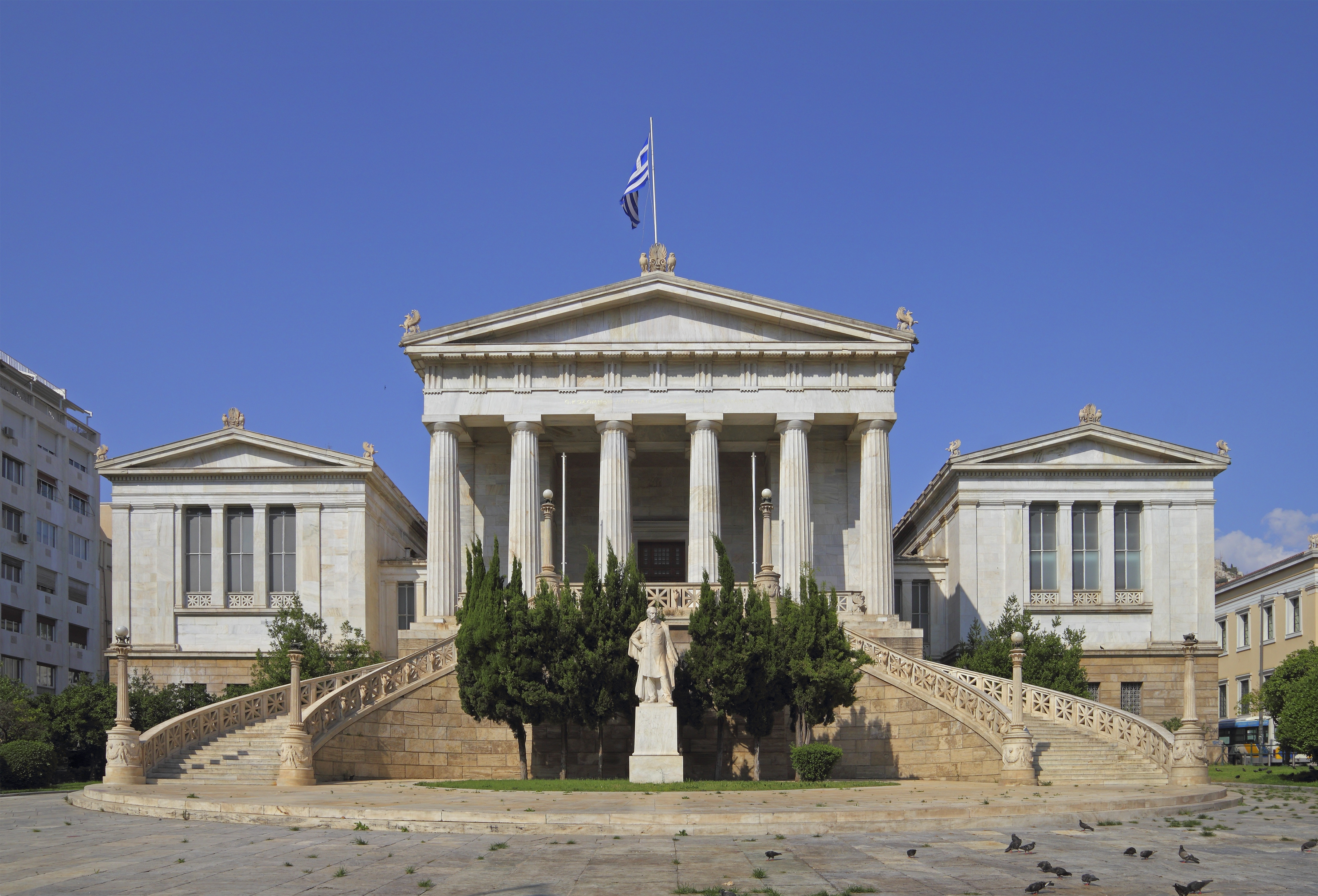 Building of the National Library of Greece in Athens (Attica, Greece)